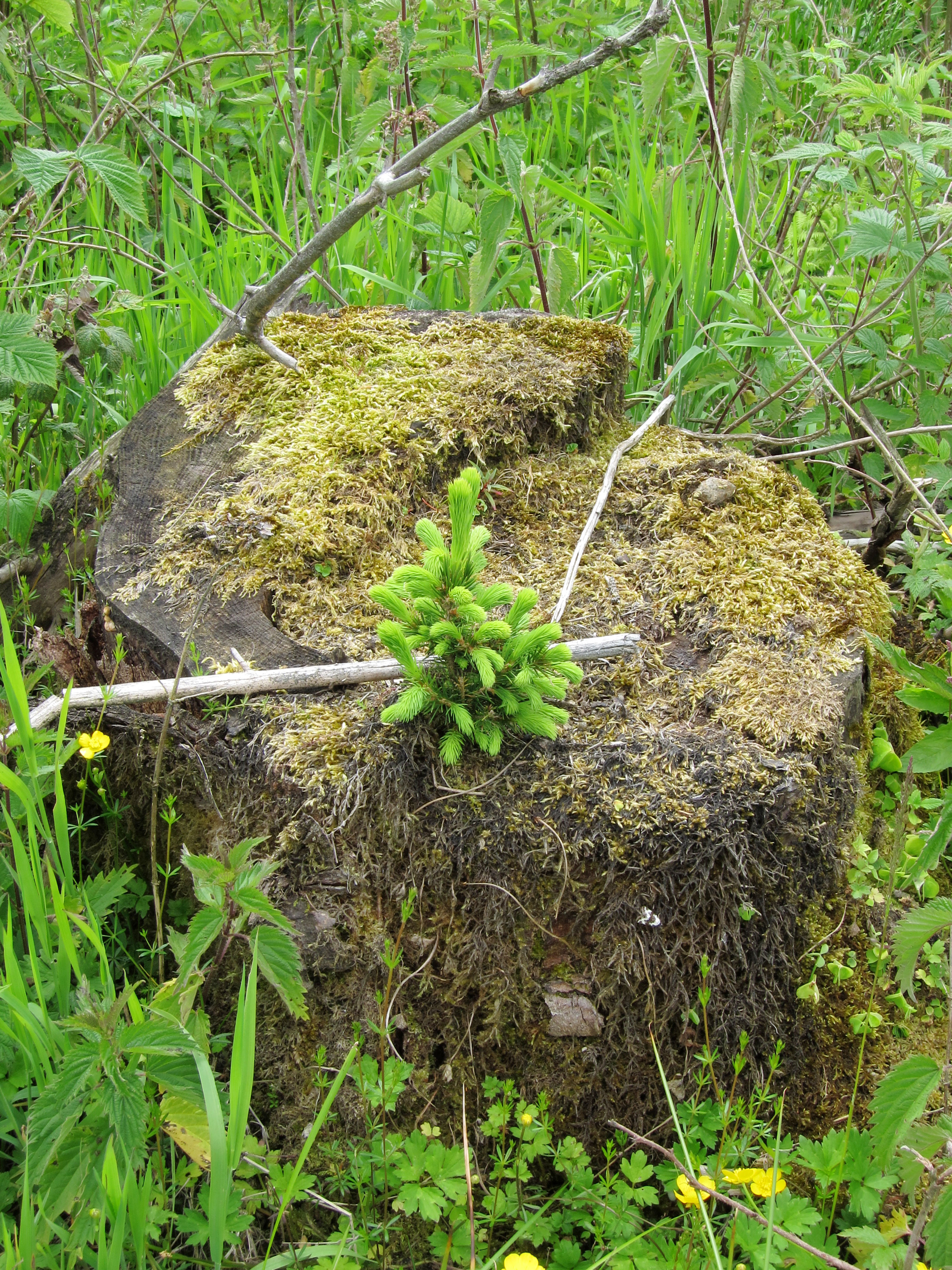 young Norway Spruce (Picea abies) on a stump - saprobiontic